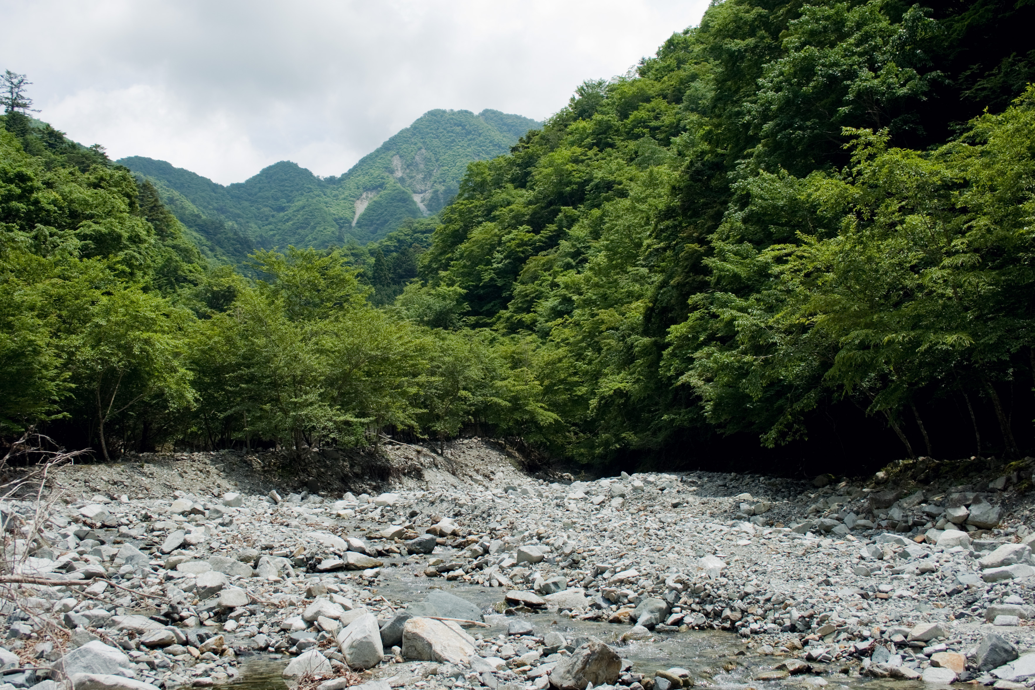 Yōkisawa stream (用木沢 Yōki-sawa), Mts.Tanzawa, Kanagawa, Japan.